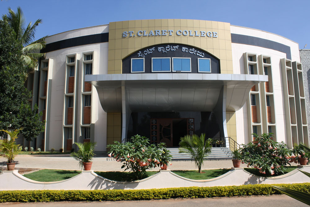 saint claret college